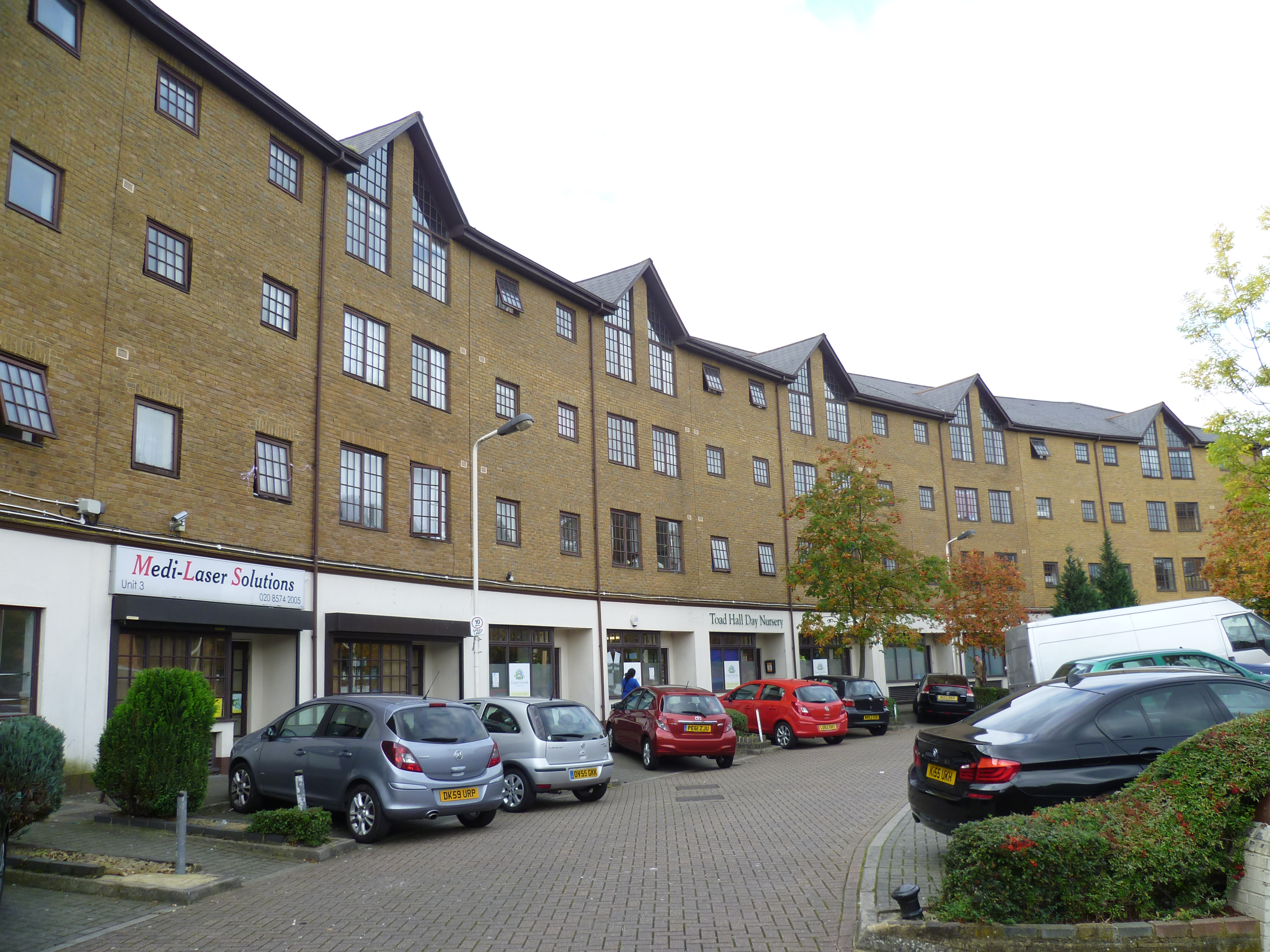 Comer Crescent 15 Oct 2015